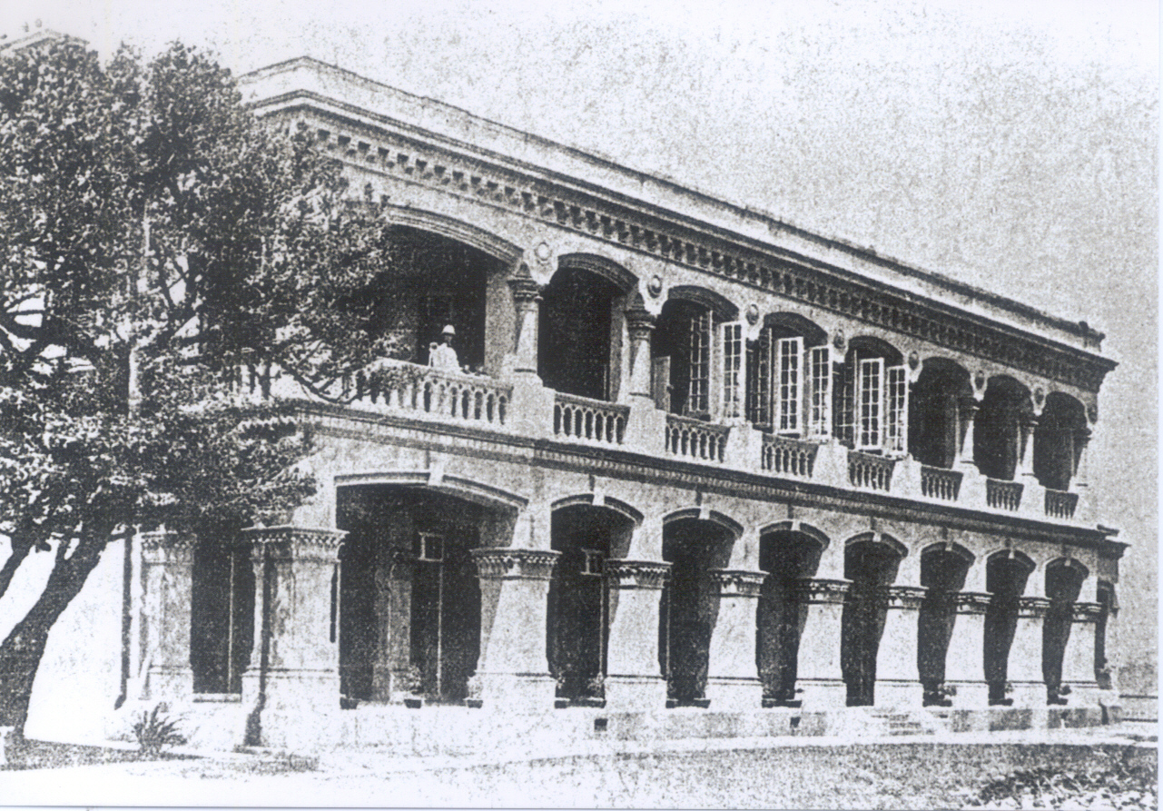 Hong Kong Observatory in 1913